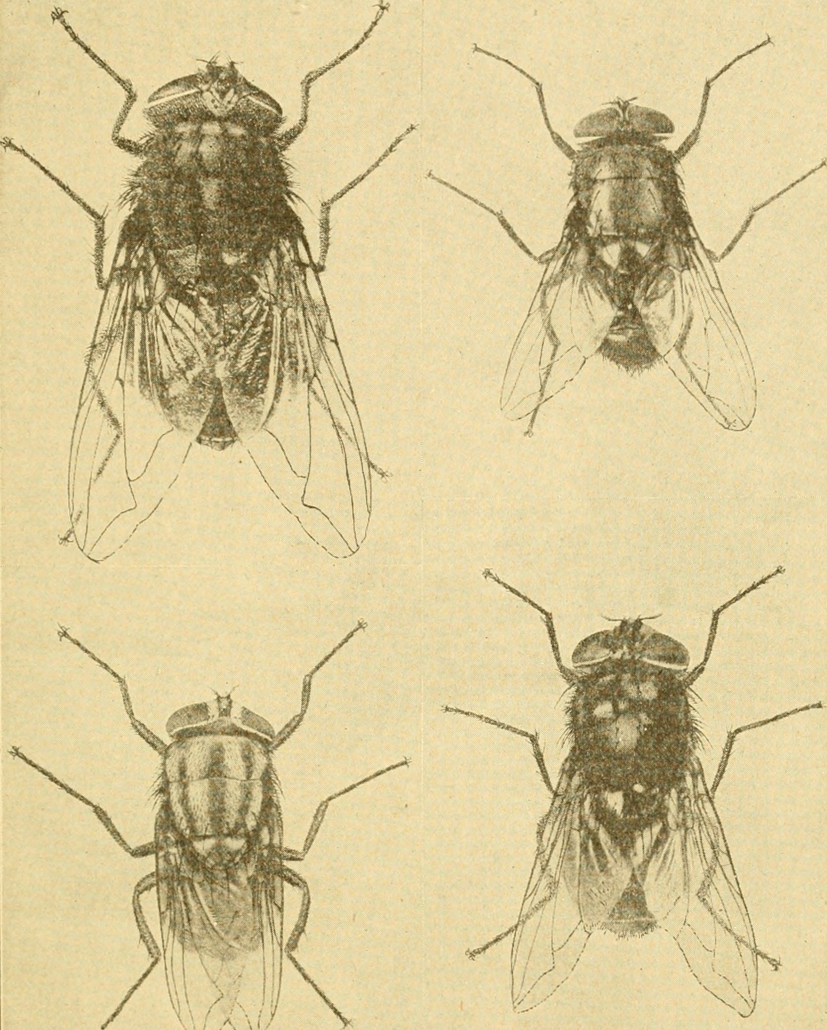 Title: Sanitary entomology; the entomology of disease, hygiene and sanitation Year: 1921 (1920s) Authors: Pierce, W. Dwight (William Dwight), 1881-1967 Subjects: Insects as carriers of disease Beneficial insects Insect pests Publisher: Boston : R. G. Badger Text Appearing Before Image: nd XIII), but mentionmust be made of tliem at present because undoubtedly many infectiousdiseases are carried by these insects which attack alike live flesh throughwounds, and dead animals. I would hardly hesitate to claim thatprobably all such flies may carry anthrax at least, and probably do carryother diseases. Bishopp, Mitchell, and Parman (1917) describe quite fully the habits-of the common American screw worm, Chrysomya macellaria Linnaeus ^(plate I, fig. 3, plate II) which breeds in both carcasses and flesh wounds(plate IV). They also treat the black blow fly Phormia regina INIeigen(plate I, fig. 4), and other species. The large hairy blow fly, Cynomyiacadaverina, Robineau-Desvoidy, and the gray flesh flies Sarcophagatexana Aldrich, S. tubcrosa var. sarracenioides Aldrich, S. sarraceniae *An appeal has been made to the International Commission on Zoological Nomen-clature to retain Chrysomya in the sense with macellaria as type. PHASES IN THE LIFE HISTORY OF NON-BITING FLIES 133 Text Appearing After Image: Pl.vte I.—Screw worms and blow flies. Fig. 1 (iipf^er left).—The blue bottle fly, Calliphora vomitoria. Fig. 2 (upper right).—The green bottle fly, Lucilia caesar. Fig.3 (lower left).—The American screw worm, Chrysomi/a macellario. Fig. 4 (lowerright).—The black blow fly, Phormia regina. (Howard and Pierce, photos byDovener.) 134 SANITARY ENTOMOLOGY